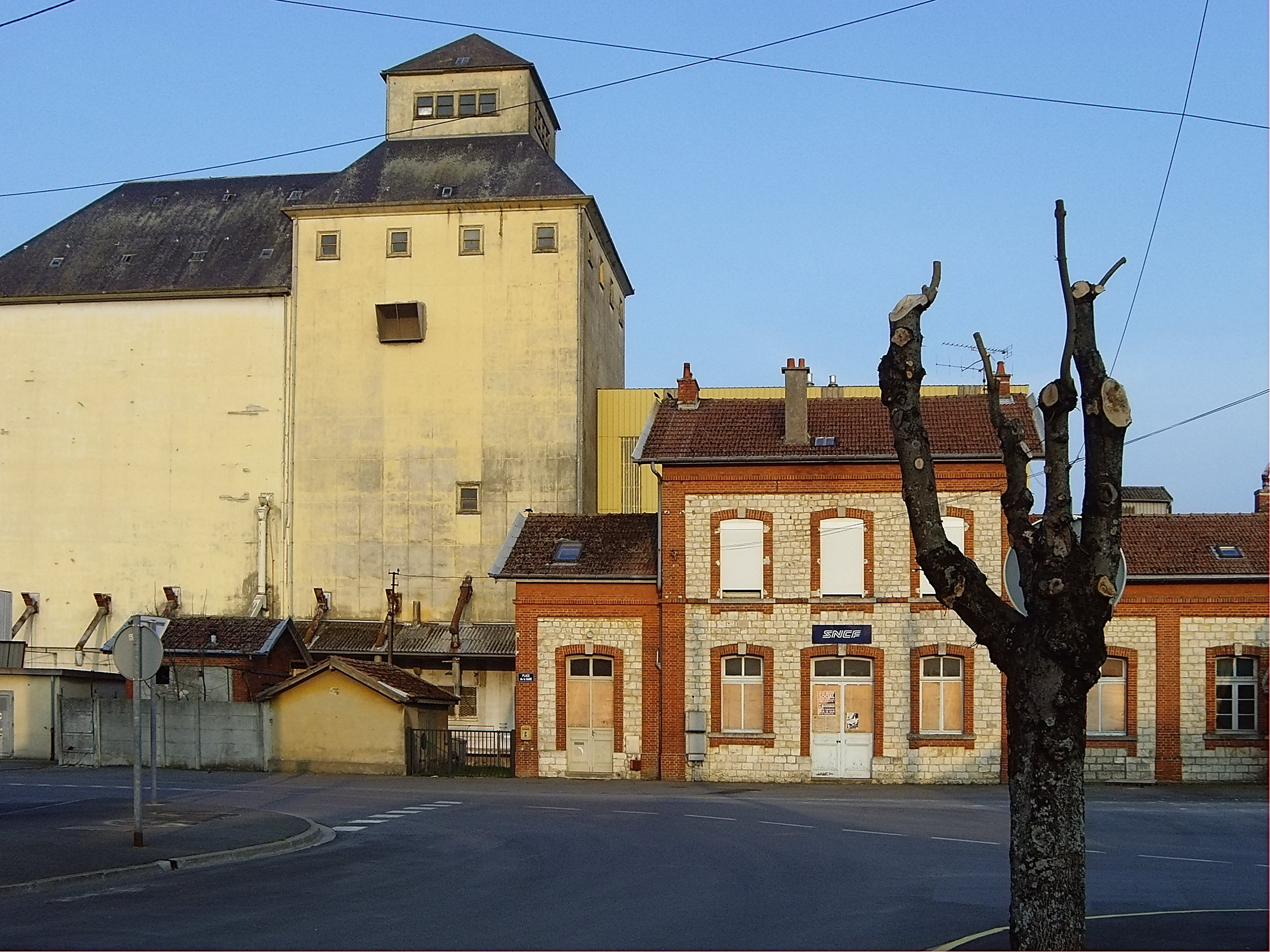 Champagne Céréales silo and old railway station in Vertus (Marne, France).